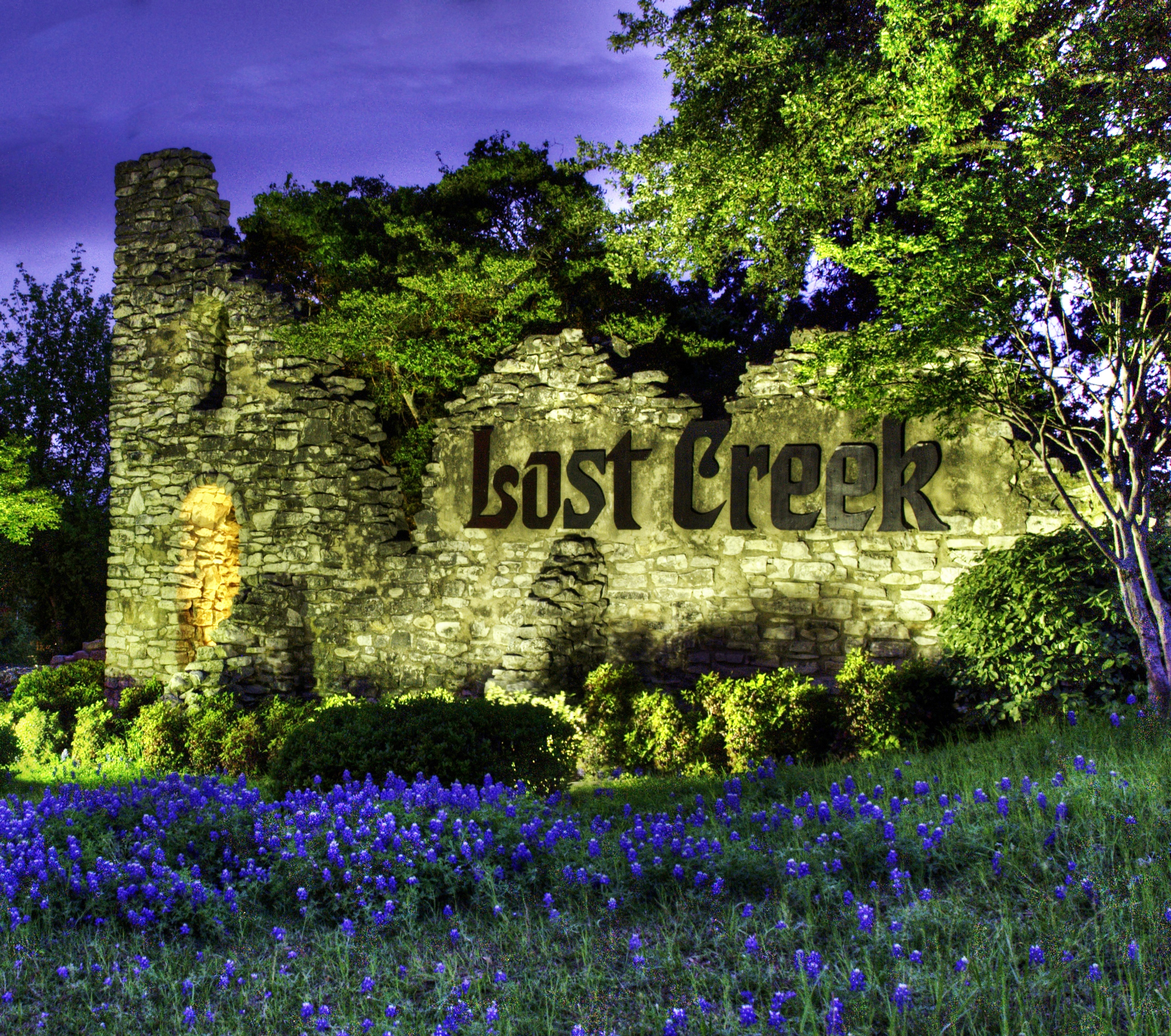 Lost Creek neighborhood entrance monument at the corner of Lost Creek Blvd and Capital of Texas Highway (Loop 360) in Austin, Texas USA.